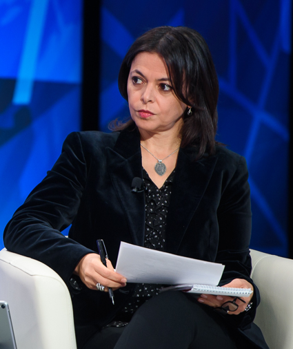 Nahlah Ayed at the Halifax International Security Forum (AS28442)